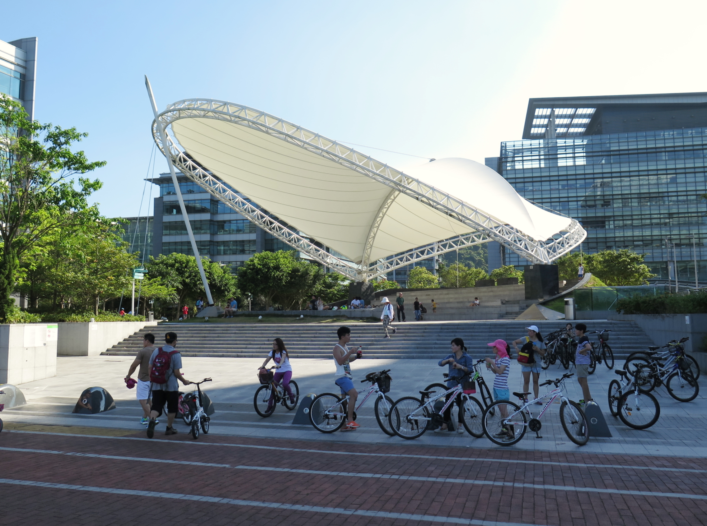 Hong Kong Science Park Forum